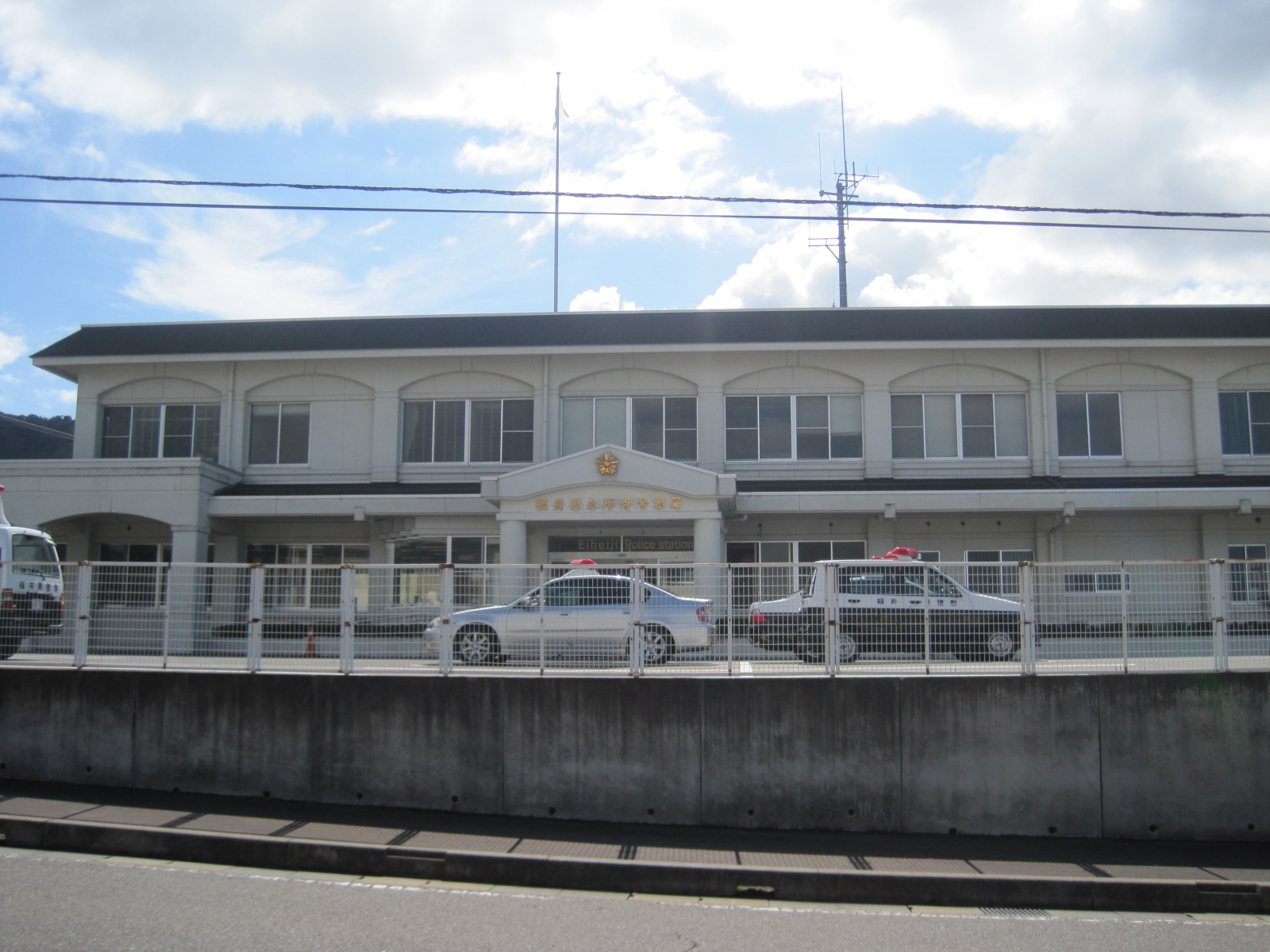 Eiheiji Police Station (Eiheiji town, Fukui prefecture)